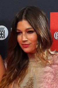 Úrsula Corberó in 2013